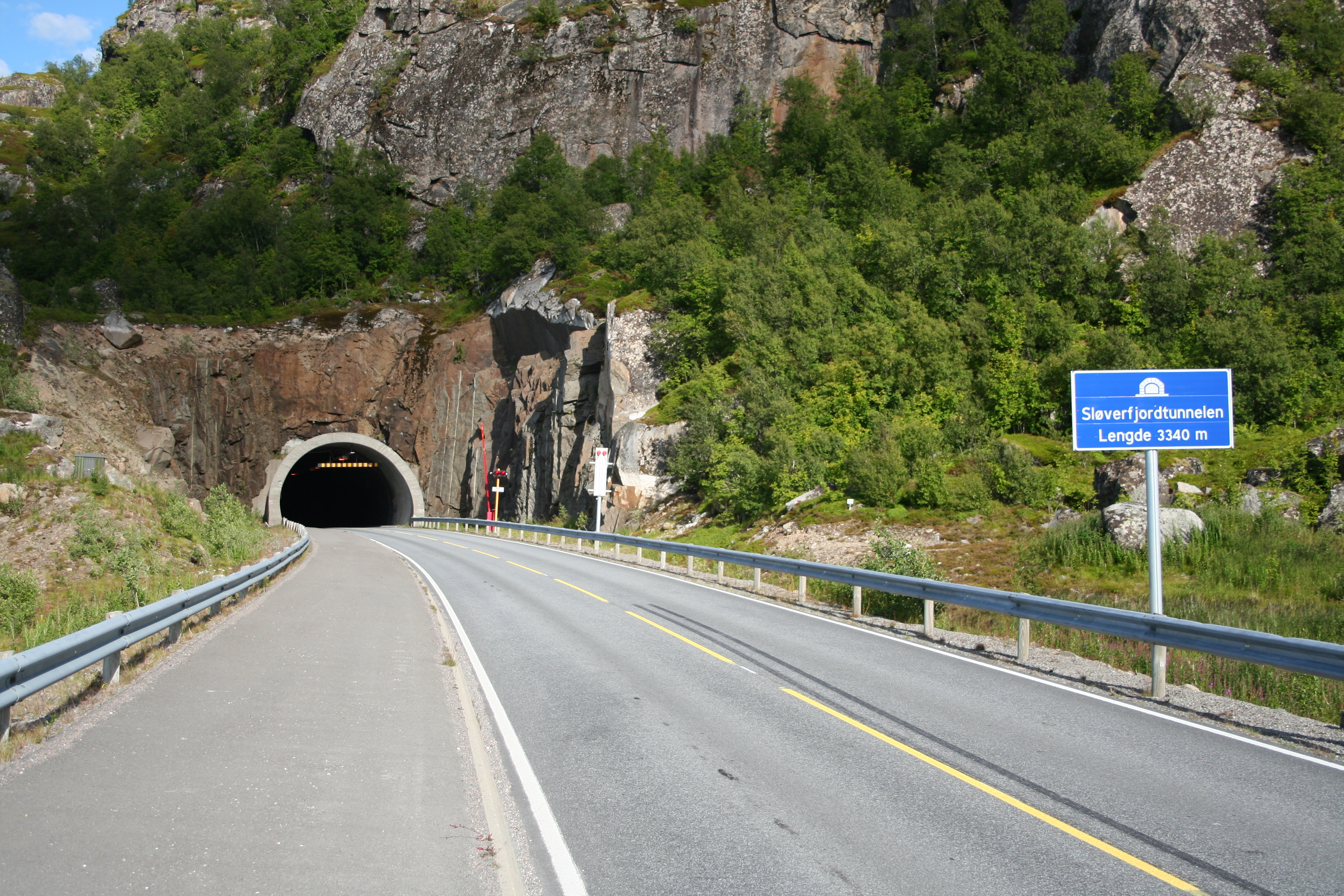 The west portal of the subsea Sløverfjord Tunnel in Norway